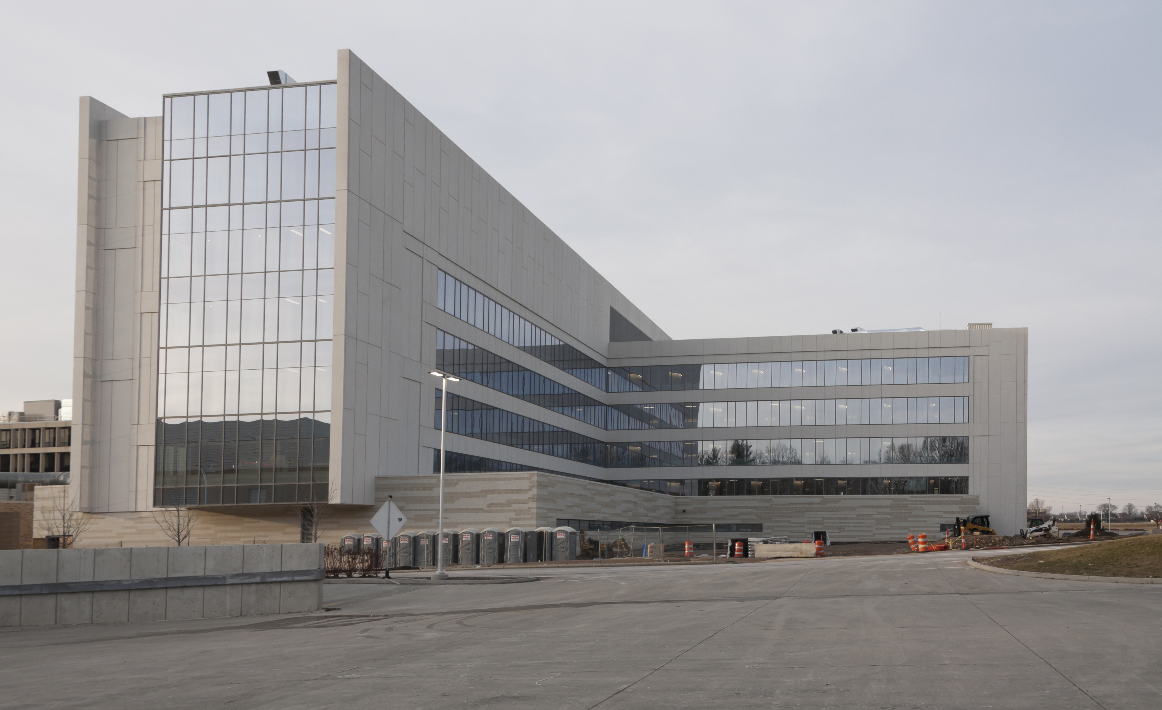 The construction of the new patient tower at Mount Carmel East, seen from the south, during late February 2018.